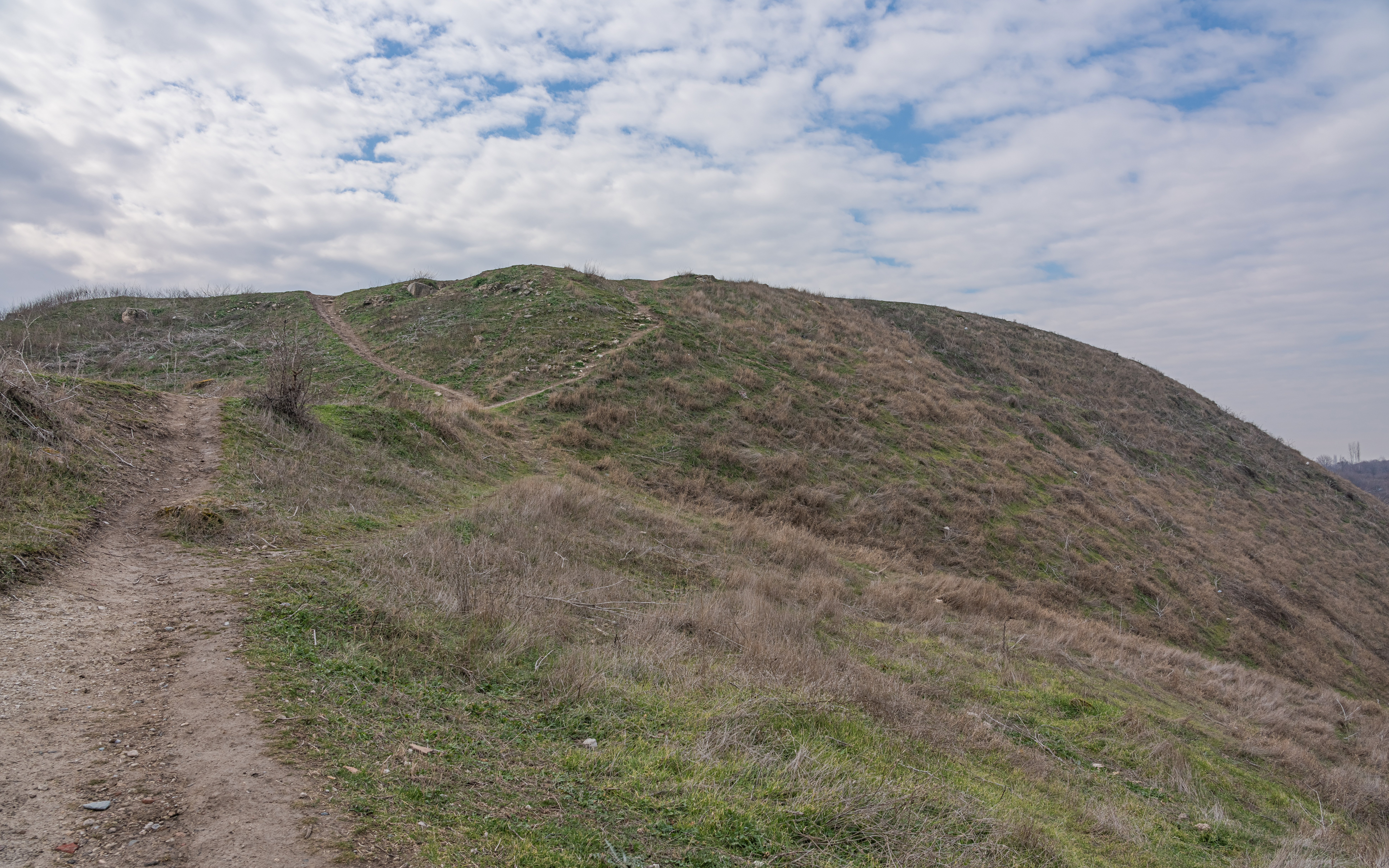 Acropolis of the ancient city of Colossae near Denizli, Turkey